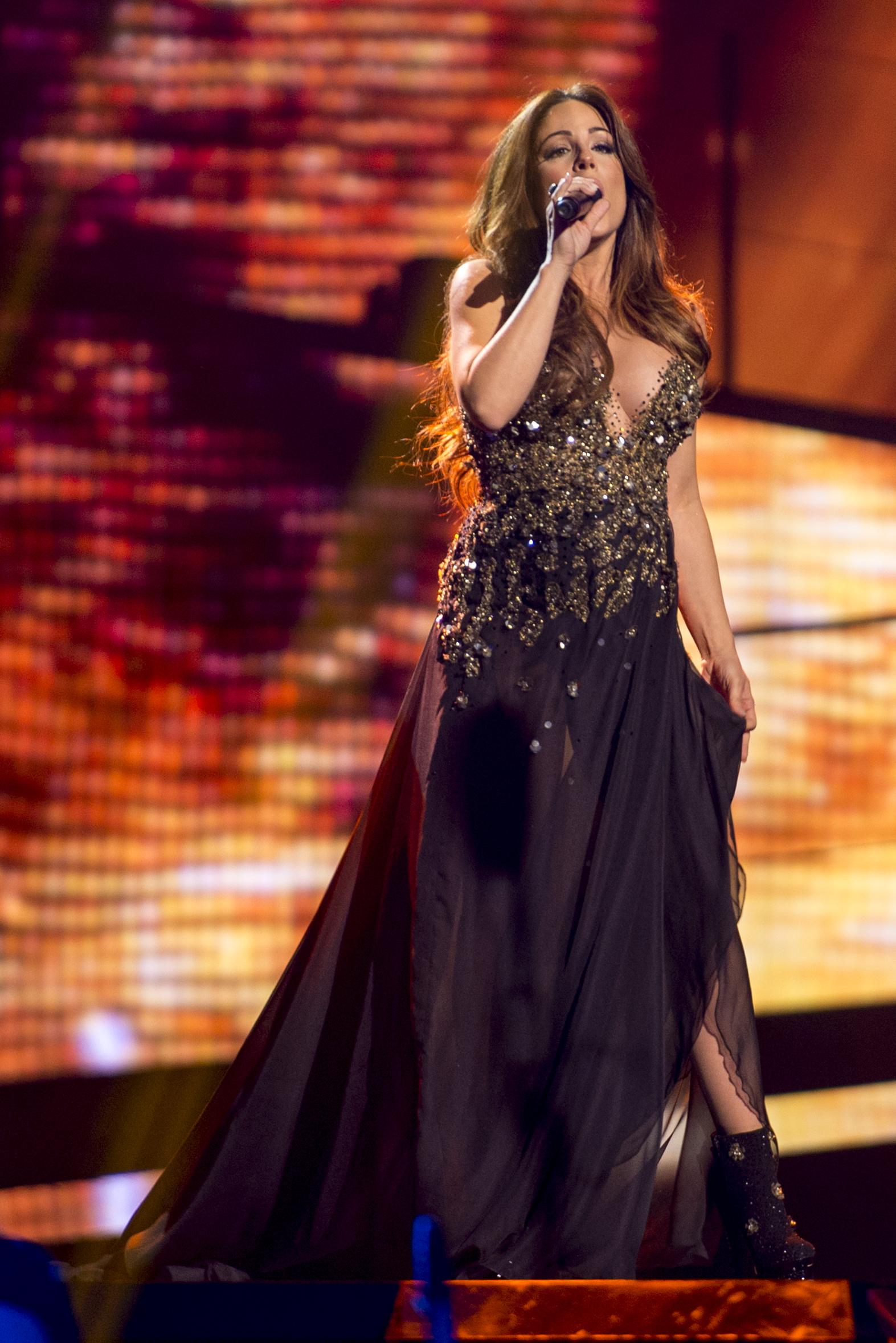 Ira Losco representing Malta with the song "Walk on Water" during a rehearsal before the first semi final of the Eurovision Song Contest 2016 in Stockholm. (Help translate this text)